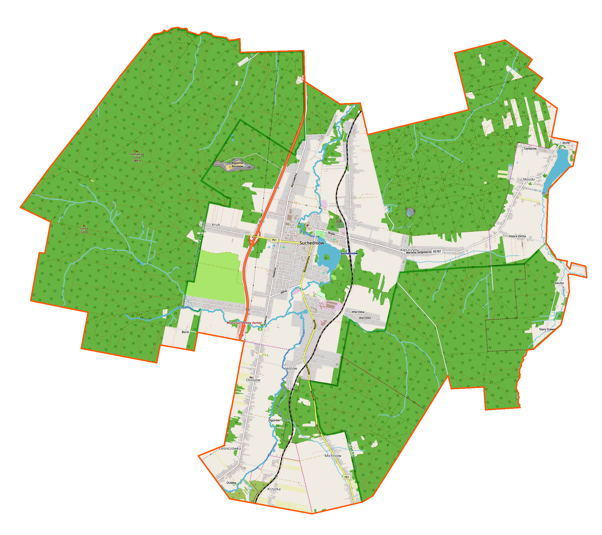 Location map